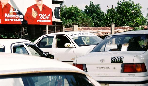 Taxi Drivers.This file has been released into the public domain by Juan Irias, photographer of the image in Honduras.